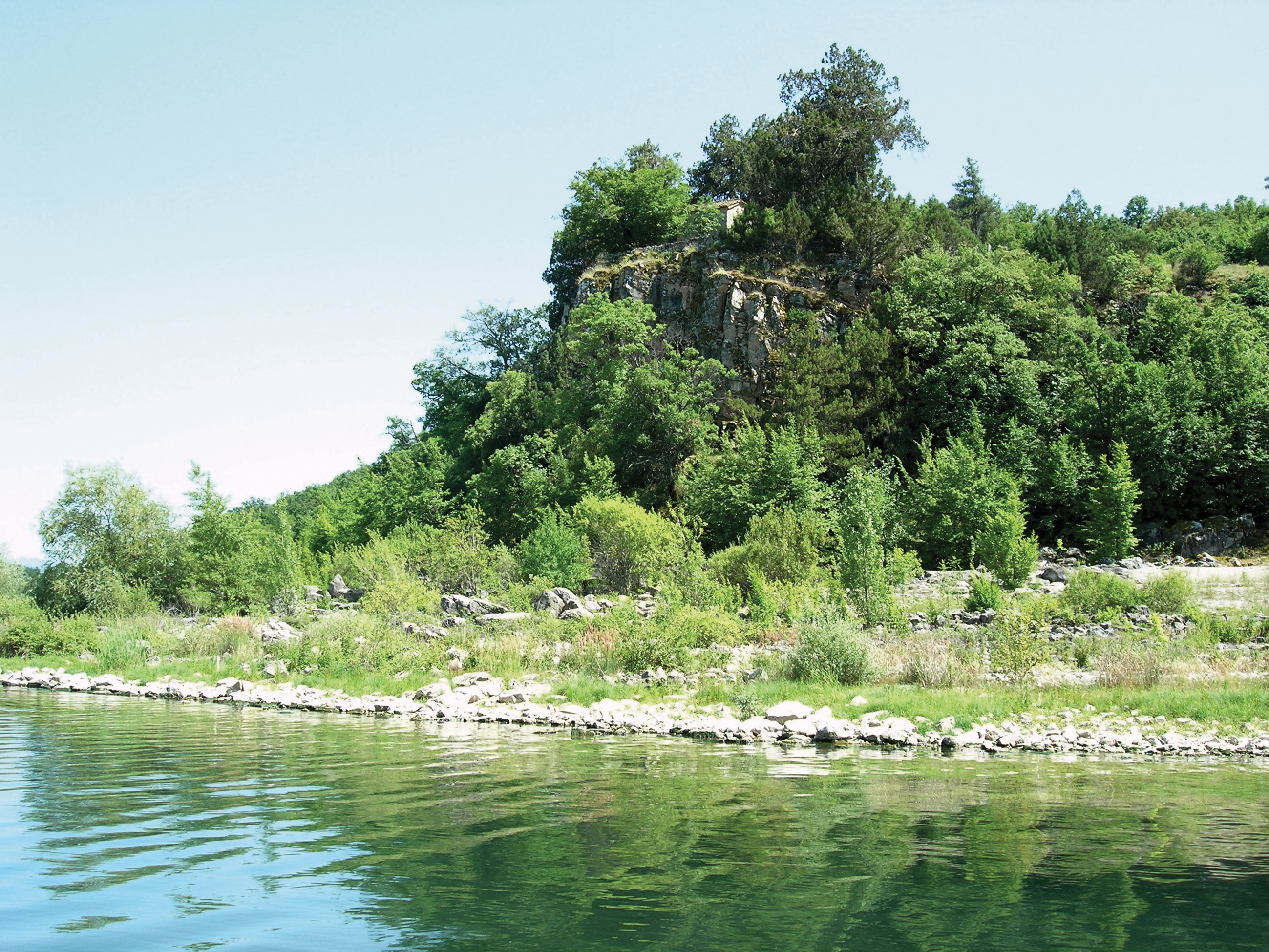 Church on Prespa Lake coast